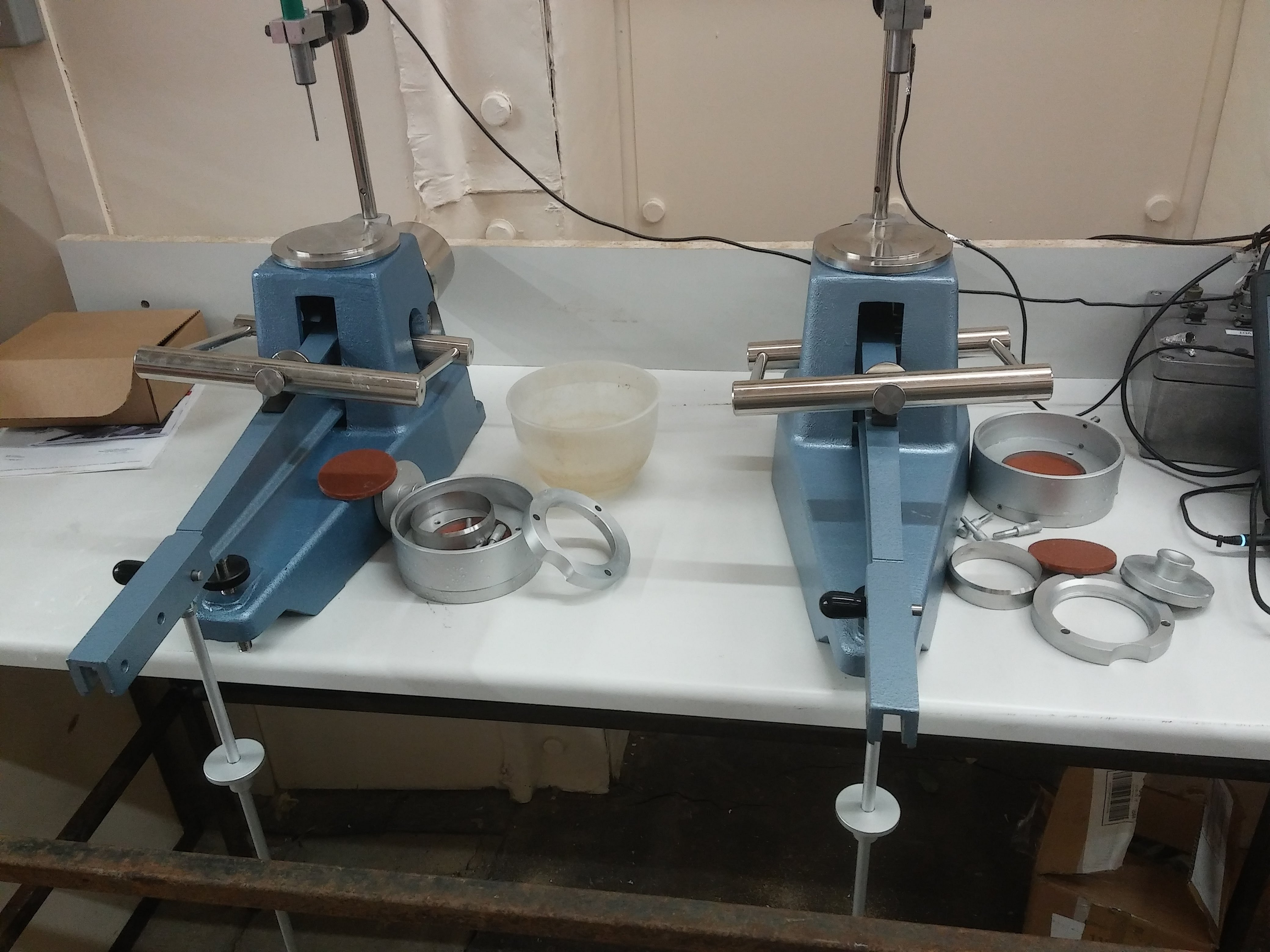 Two disassembled oedometers at Schofield Centre, University of Cambridge